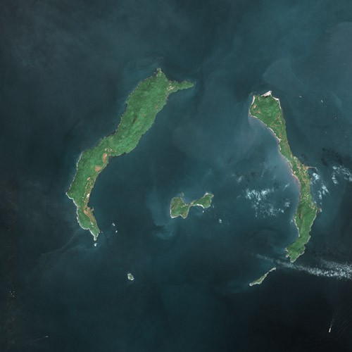 Los Islands, Guinea, by SPOT Satellite